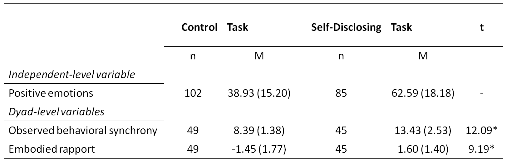 This is data from Vacharkulksemsuk & Fredrickson's 2011 experiment relating to embodied cognition and embodied rapport.